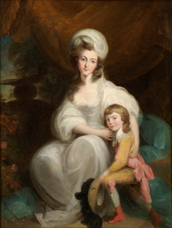 Alicia Hay, Countess of Erroll and James Hay, Lord Hay and Lord Slains